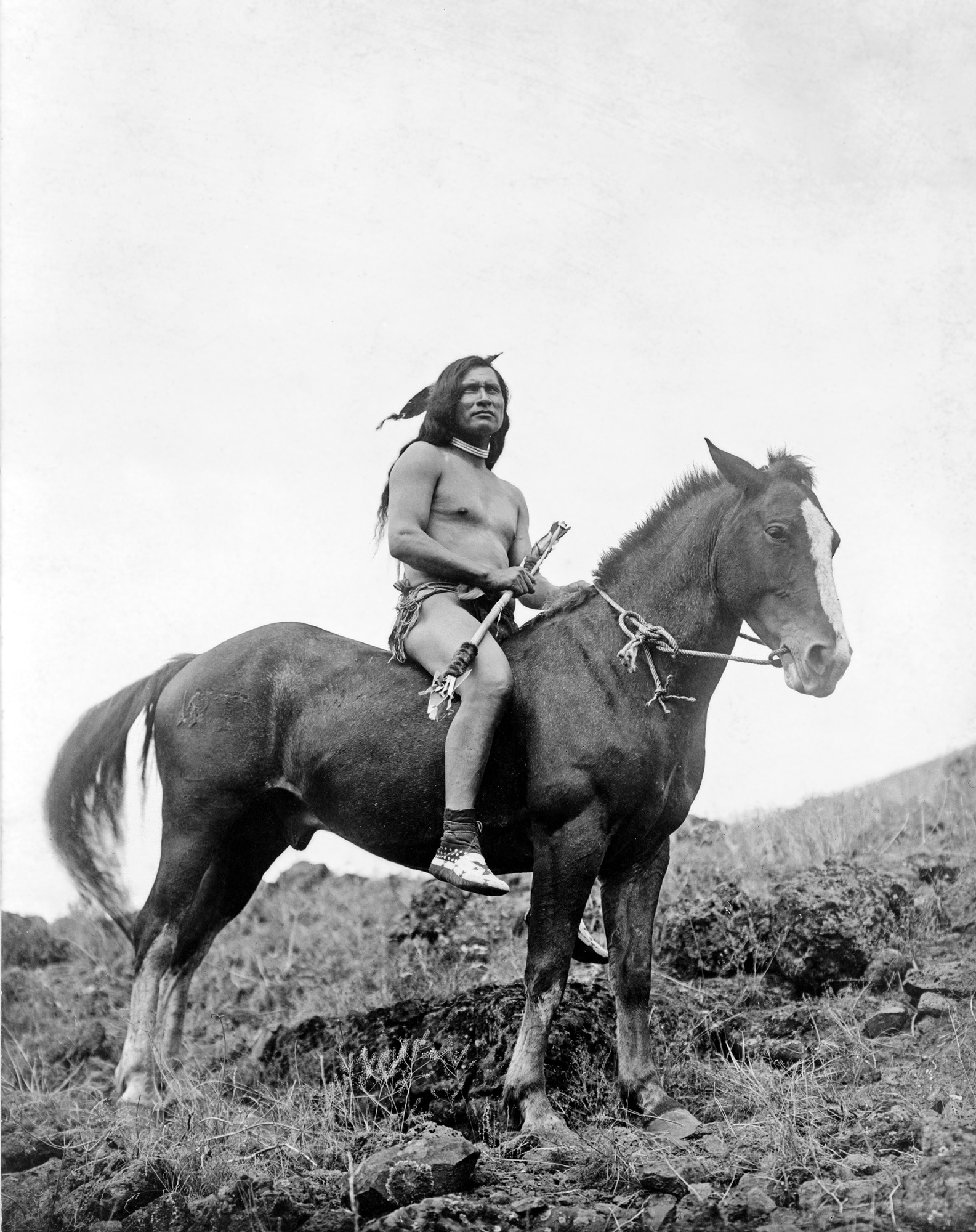 TITLE: The old-time warrior--Nez Percé CALL NUMBER: LOT 12325-C [P&P] REPRODUCTION NUMBER: LC-USZ62-101259 (b&w film copy neg.) SUMMARY: Nez Percé man, wearing loin cloth and moccasins, on horseback. MEDIUM: 1 photographic print. CREATED/PUBLISHED: c1910. CREATOR: Curtis, Edward S., 1868-1952, photographer. NOTES: J150250 U.S. Copyright Office. Edward S. Curtis Collection. Curtis no. 2924-10. Published in: The North American Indian / Edward S. Curtis. [Seattle, Wash.] : Edward S. Curtis, 1907-30, v. 8, p. 48. SUBJECTS: Indians of North America--Northwest, Pacific--1910. Nez Percé Indians--1910. FORMAT: Portrait photographs 1910. Photographic prints 1910. "Works copyrighted before 1923 are now in the public domain. The copyright for the works after 1923 was not renewed, so they are also in the public domain." [1]